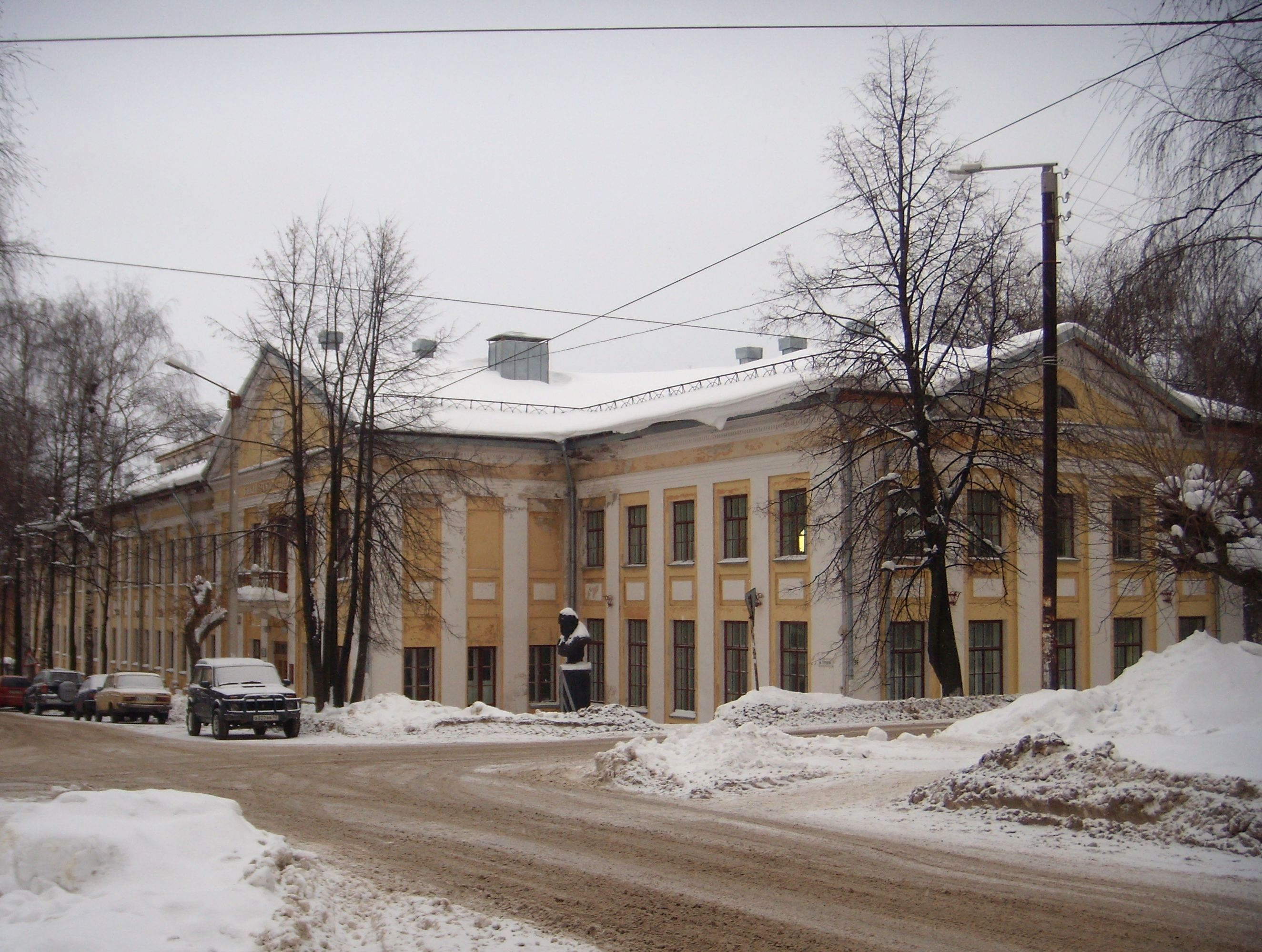 The main building of the library name Herzen